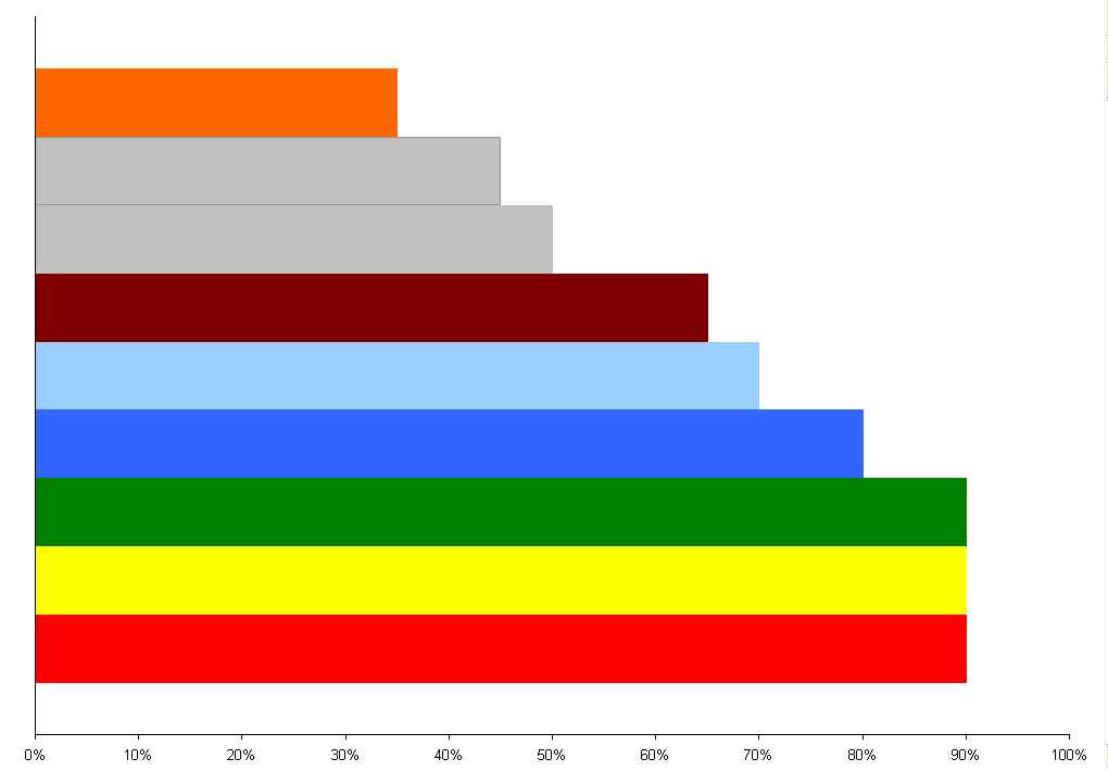 Faas 2002 Group cohesion in the European Parliament.PNG. Faas 2002 Group cohesion A 2002 paper from European Integration online Papers (EIoP) by Thorsten Faas gave cohesion figures for the Groups in the European Parliament. Those figures were: approx 90%: PES,ELDR,G/EFA approx 80%: EPP-ED approx 70%: UEN approx 65%: EUL/NGL approx 50%: TGI approx 45%: NI approx 35%: EDD Coloration In order to allow the chart to be used on all wikis, the chart has no annotations in English. The colours follow the convention established on English Wikipedia and are coloured to the following schema: Conservative/Christian Democrat (EPP-ED) Social Democrats (PES) Communist/Far-Left (EUL/NGL) Liberal/Centrist (ELDR) National Conservatives (UEN) Green/Regionalist (G/EFA) Heterogeneous (TGI) Independents (NI) Eurosceptics (EDD) For details on English Wikipedia conventions and the groups, see Political groups of the European Parliament.